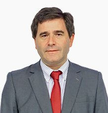 Subsecretario de Energía